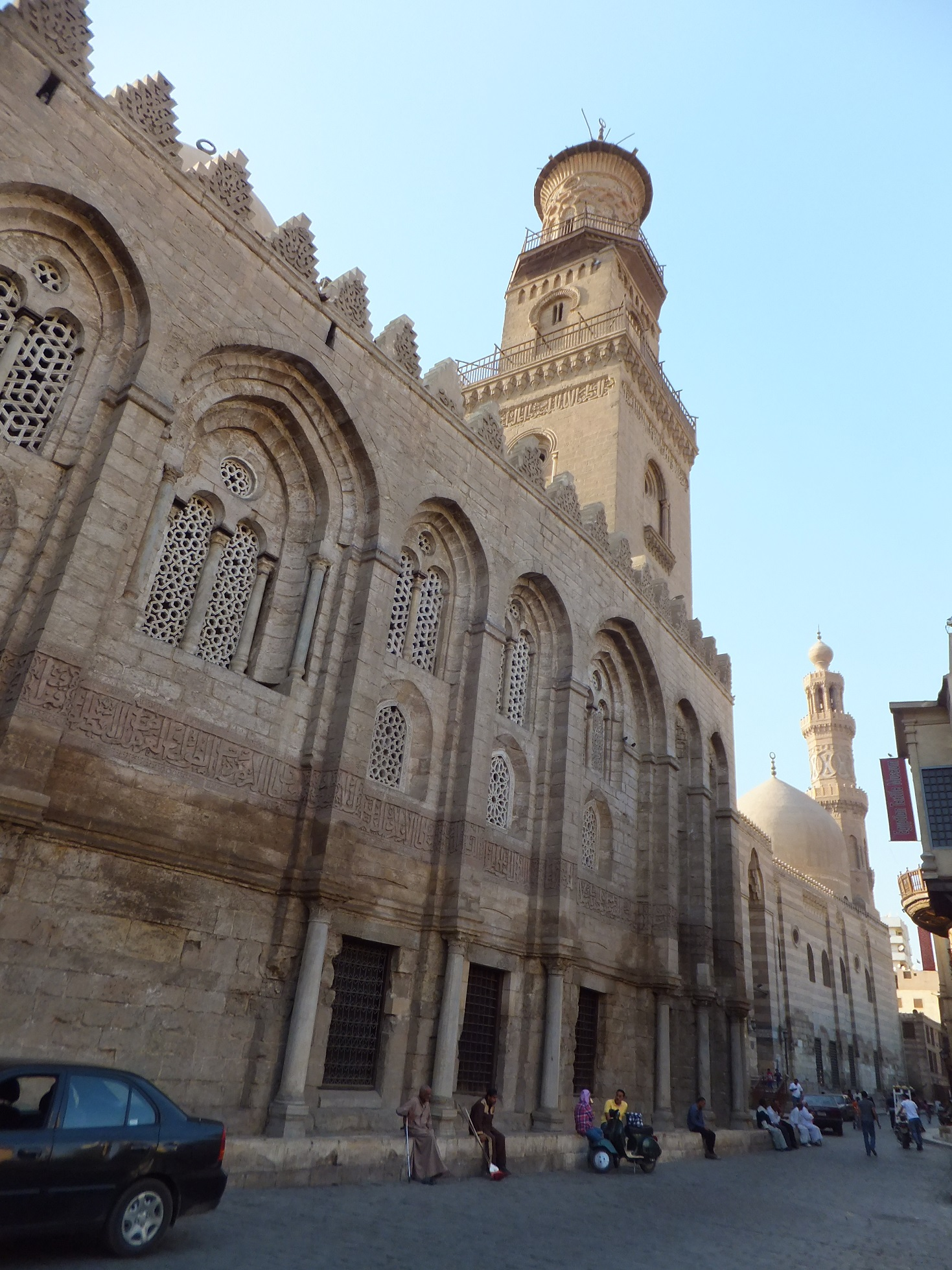 The Bayn al-Qasrayn area, with the Qalawun mausoleum complex on the left and the Madrassa of Sultan Barquq behind it.